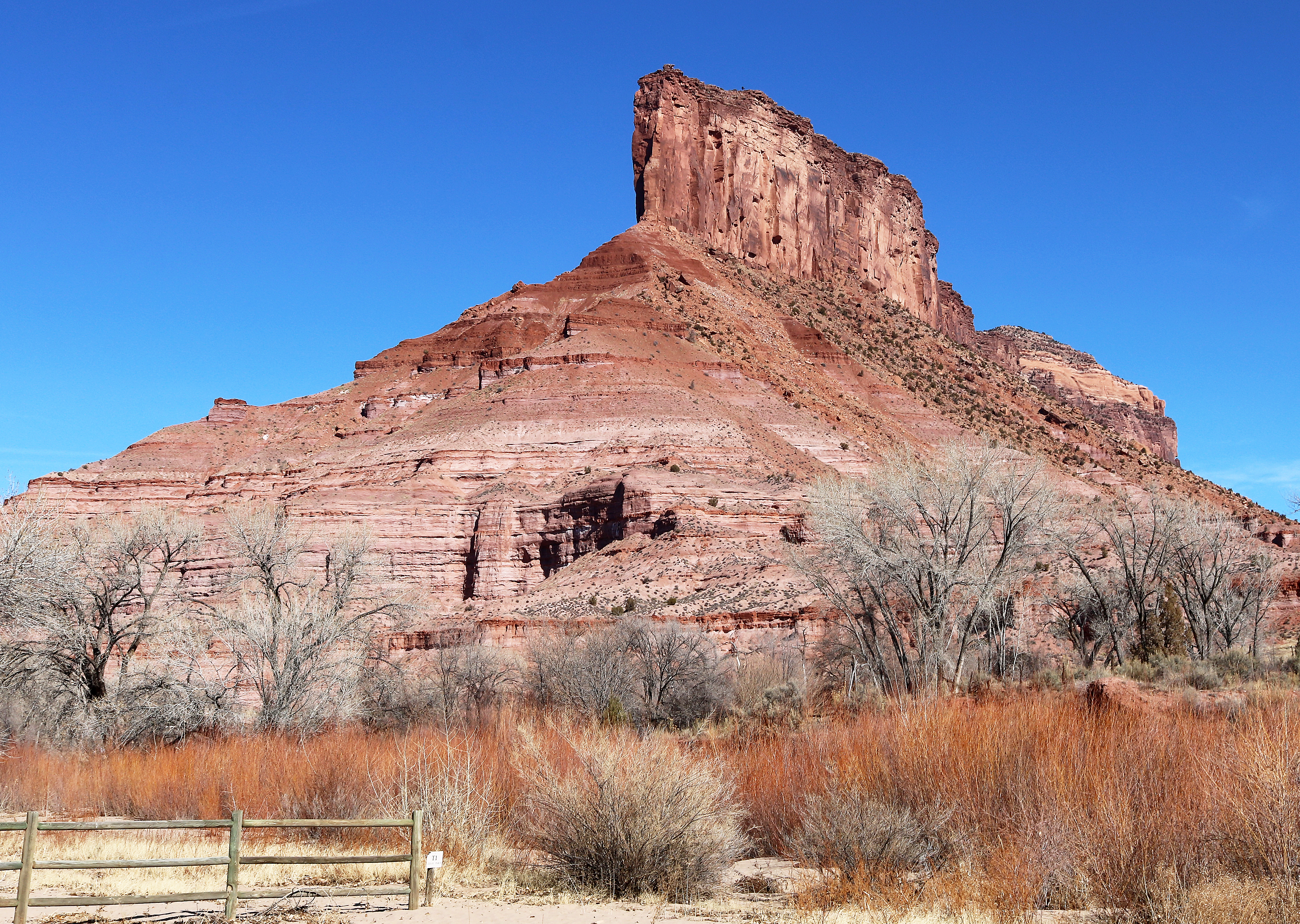 The Palisade, a mountain in Gateway, Colorado.